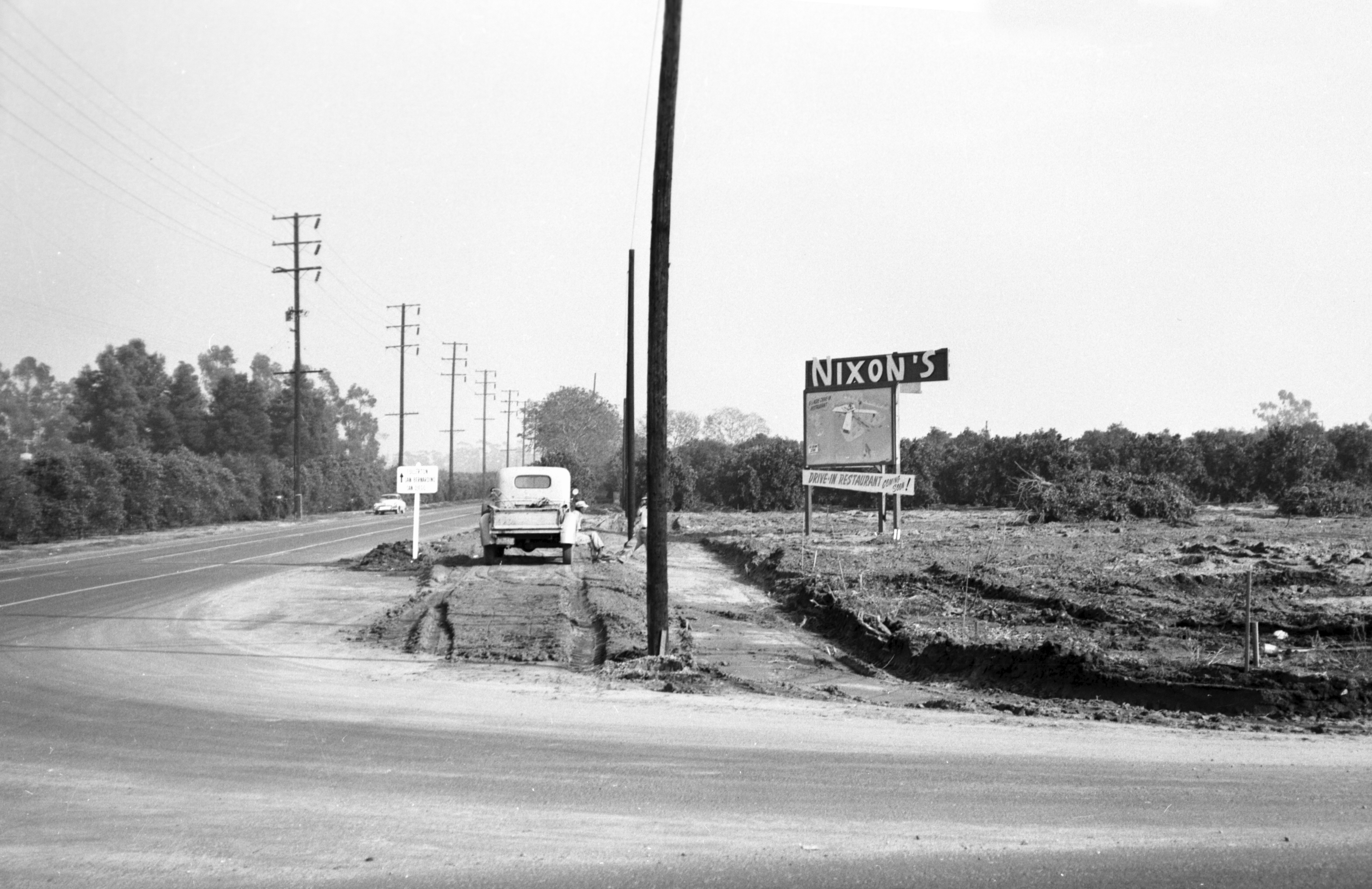 Location unknown. Nixon's Restaurant was owned by President Richard Nixon's brother, Donald. There are no known copyright restrictions on this image. All future uses of this photo should include the courtesy line, "Photo courtesy Orange County Archives." Comments are welcome after reading our Comment Policy . Acc#1988-20